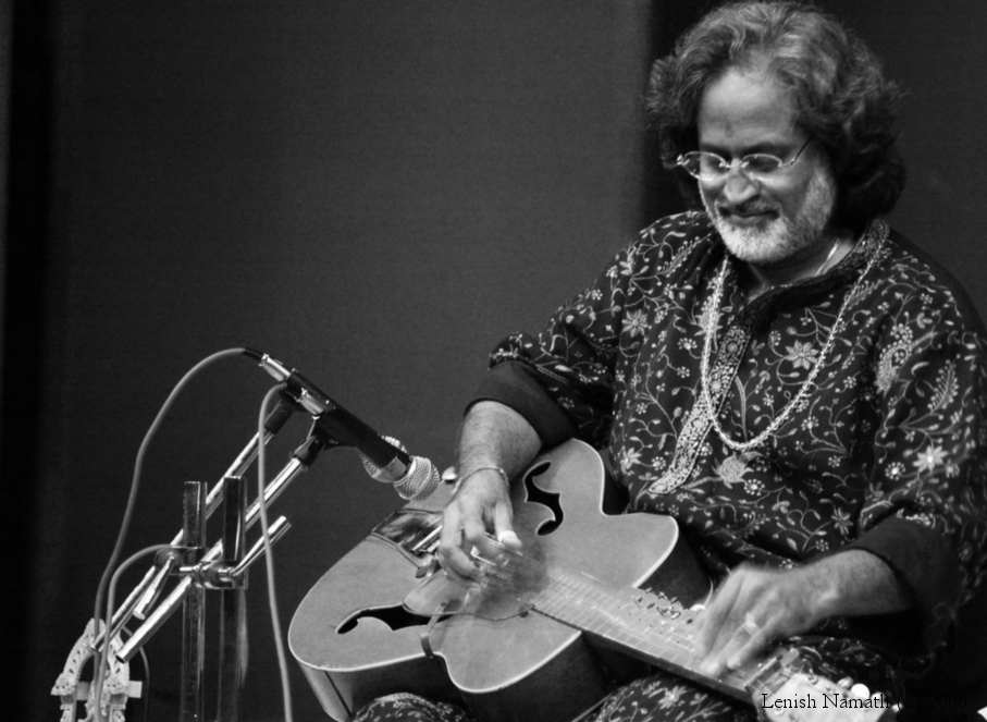 Vishwa Mohan Bhatt Photograph at a a concert at J.N. Tata Auditorium, Bangalore, India on 22 November 2006